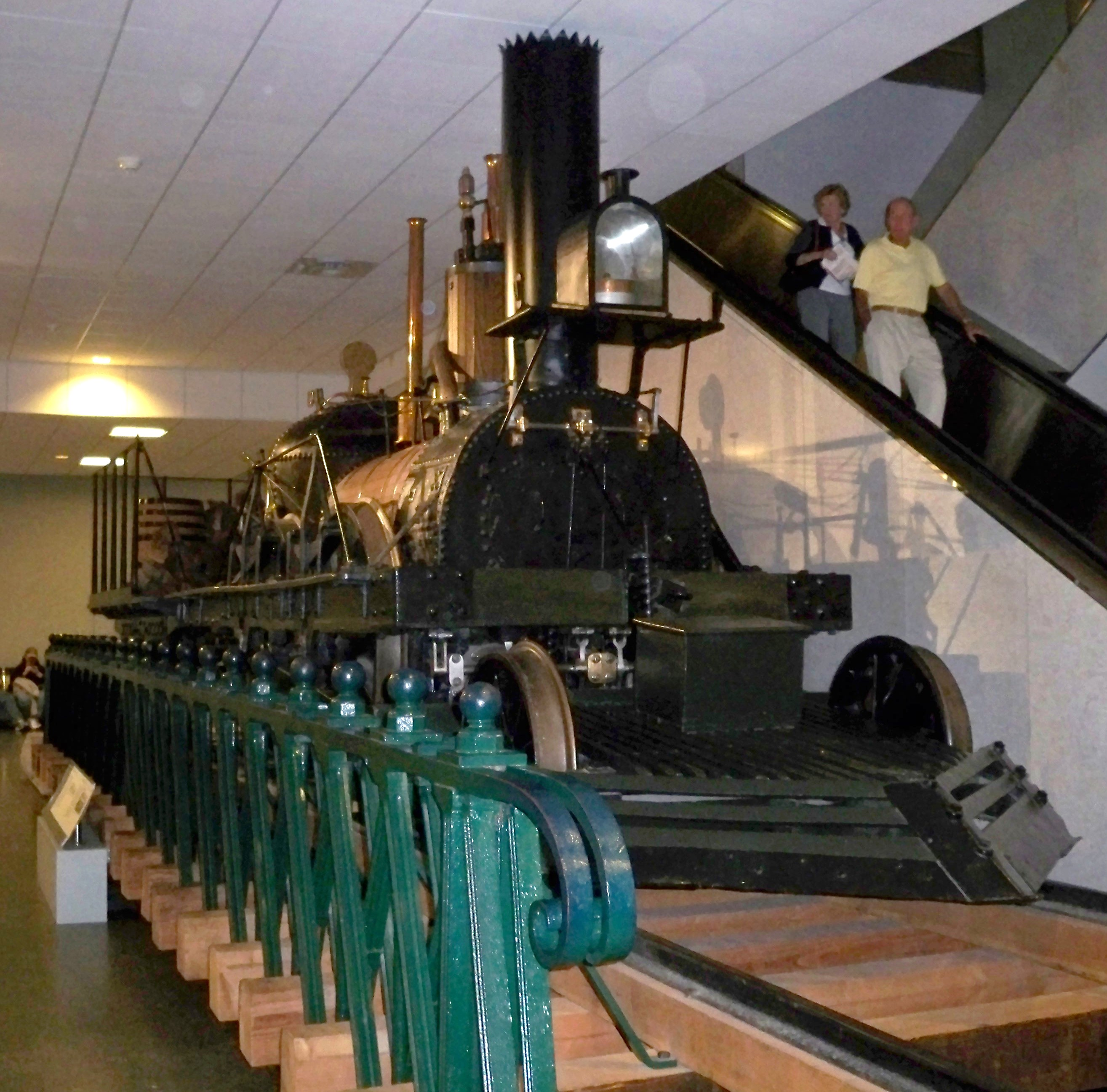 A "John Bull" locomotive on display at the Smithsonian National Museum of American History, Washington, D.C.